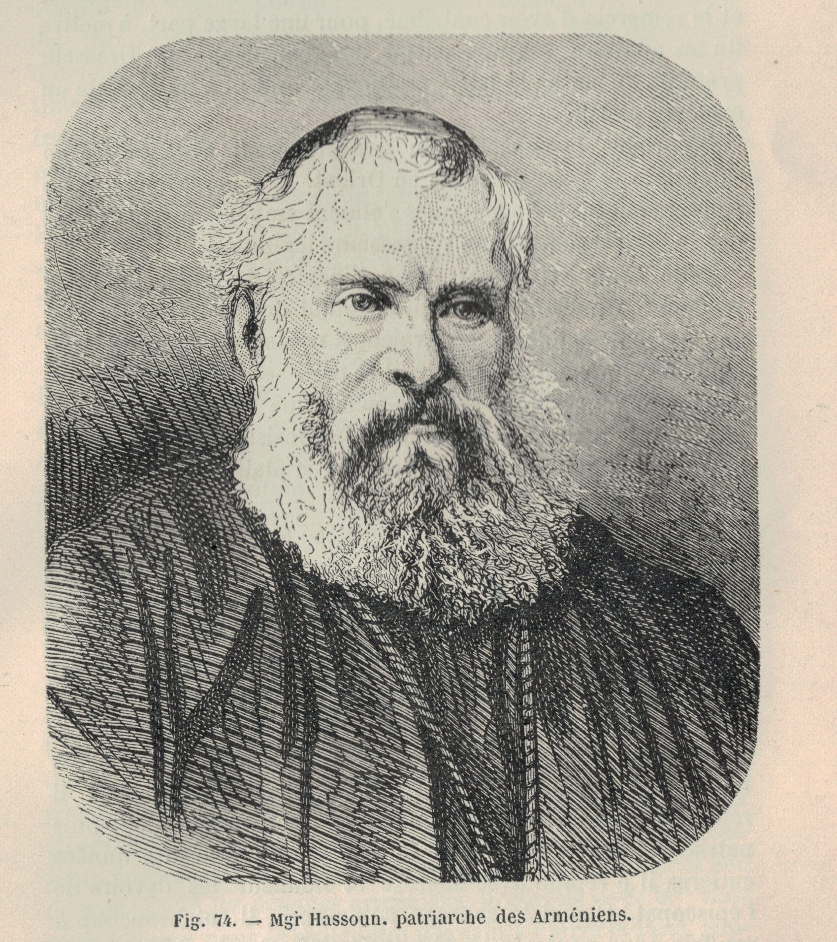 Text: Fig. 74. - Mgr Hassoun, patriarch of the Armenians. Andon Bedros IX Hassoun (1809-1884) was Patriarch of Cilicia (Armenian) from 1867 to 1881.